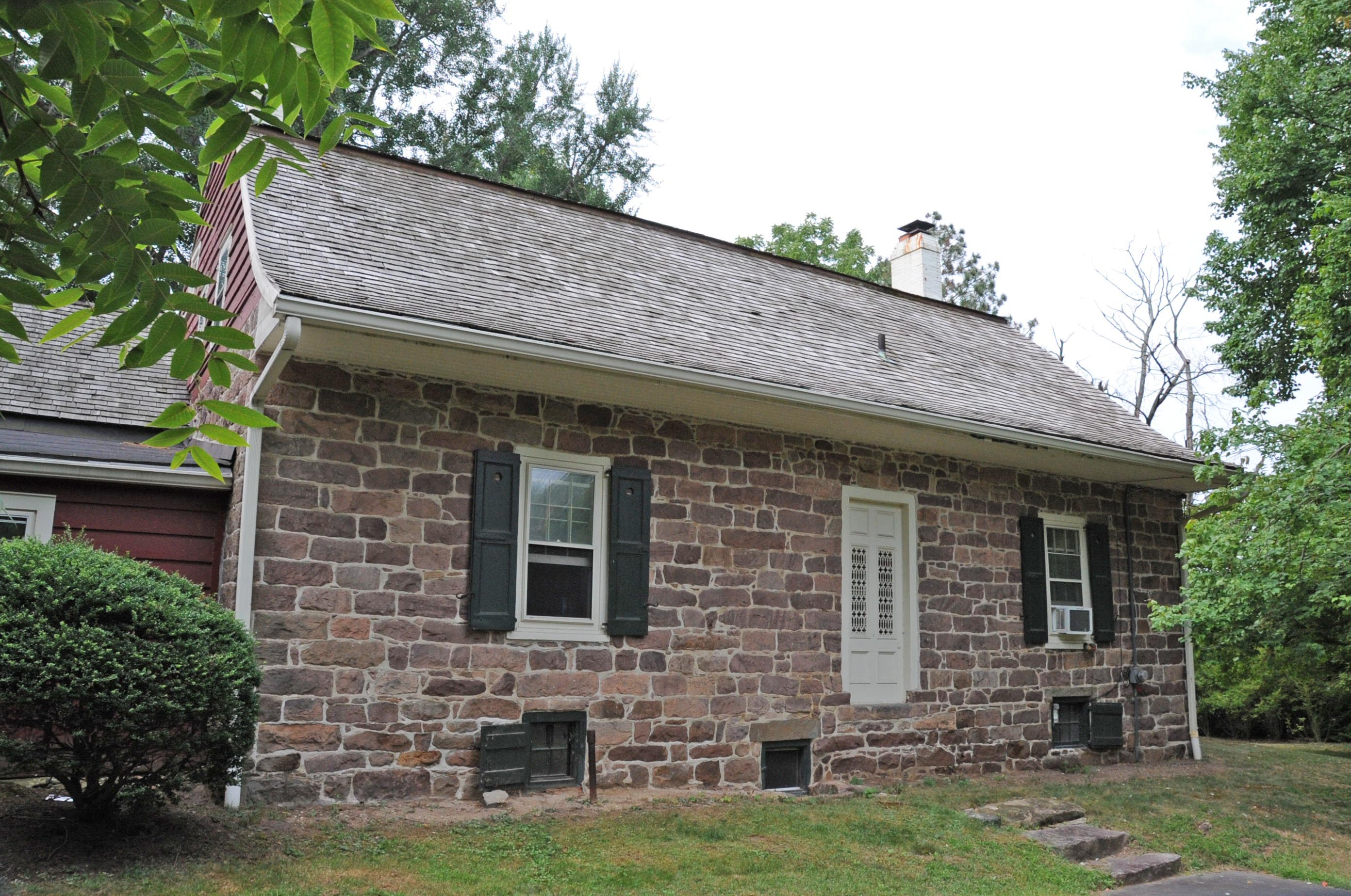 HOUSE WAS BUILT CIRCA 176 BY DANIEL DE CLARK WHO OPERATED A LARGE CATTLE & DAIRY FARM; IN 1815 HIS SON WILLIAM DE CLARK OWNED THE FARM AND IT STAYED IN THE FAMILY UNTIL 1856